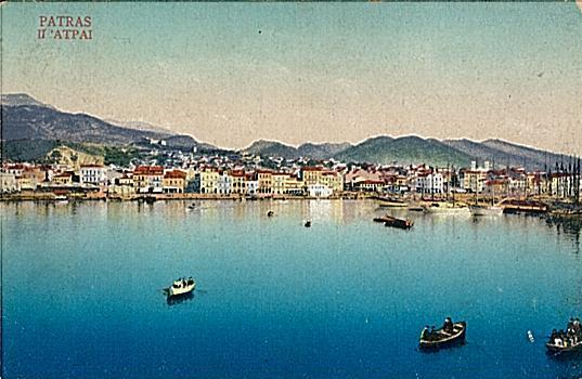 Reproduction of a copy of a postcard. View of Patras from the sea.